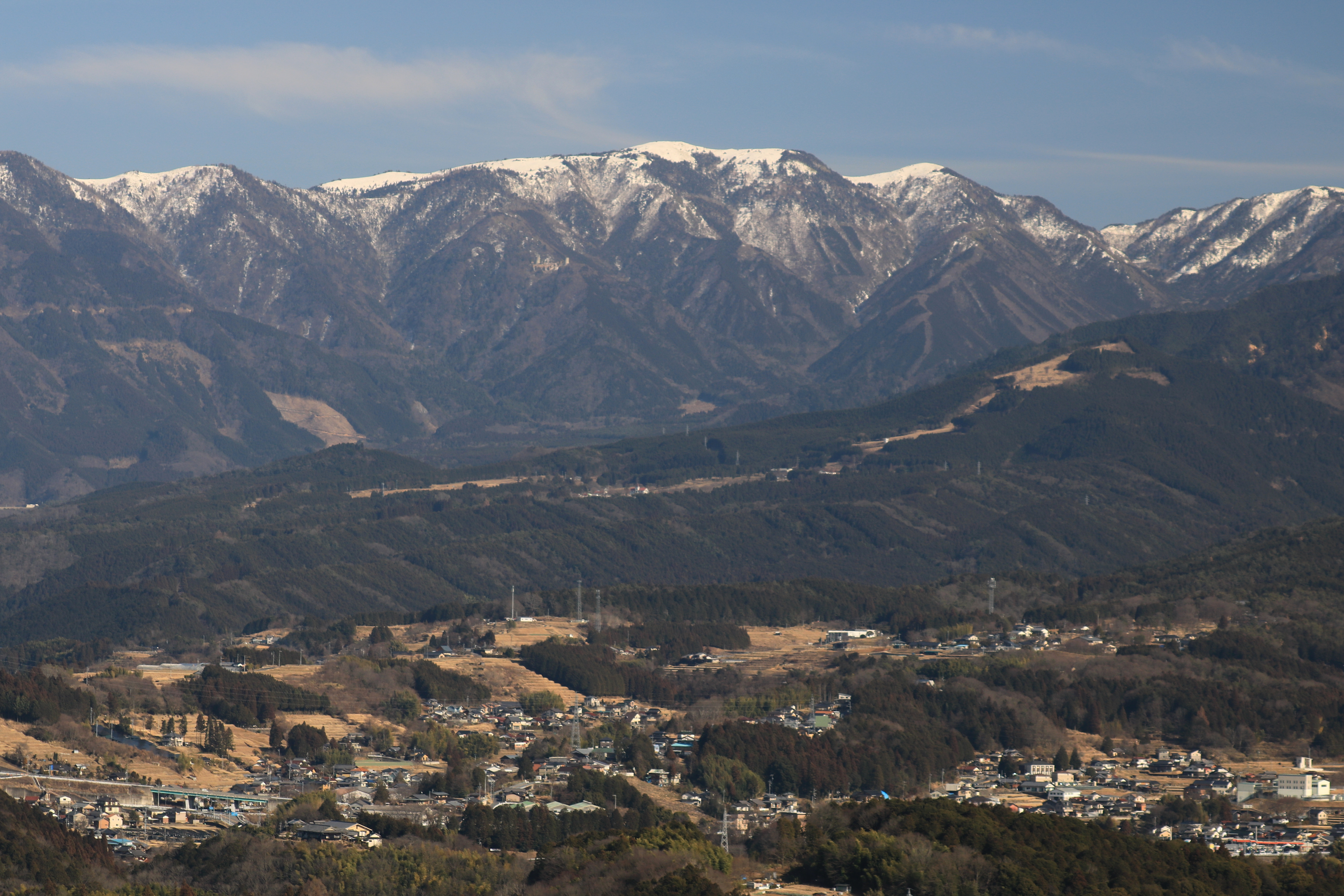 Mount Fujimidai seen from Naegi Castle in Nakatsugawa, Gifu prefecture, Japan.